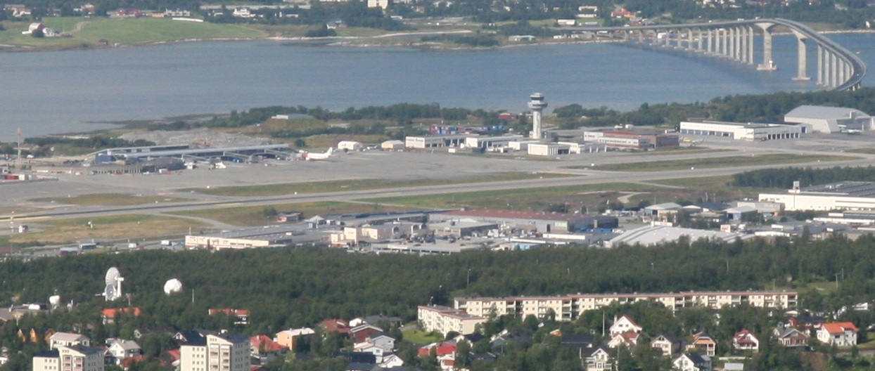 Tromsø Airport, seen from Fløya.